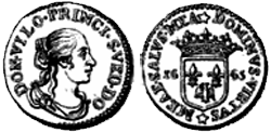 The silver "luigino", conied in Torriglia and dedicated to the princess Violante Lomellini D'Oria DON VI LO PRINCI S VED DO, female bust right DOMINVS VIRTVS MEA E(t) SALVS MEA crowned coats of arms: 2 fleurs-de-lis on chief & 1 eagle